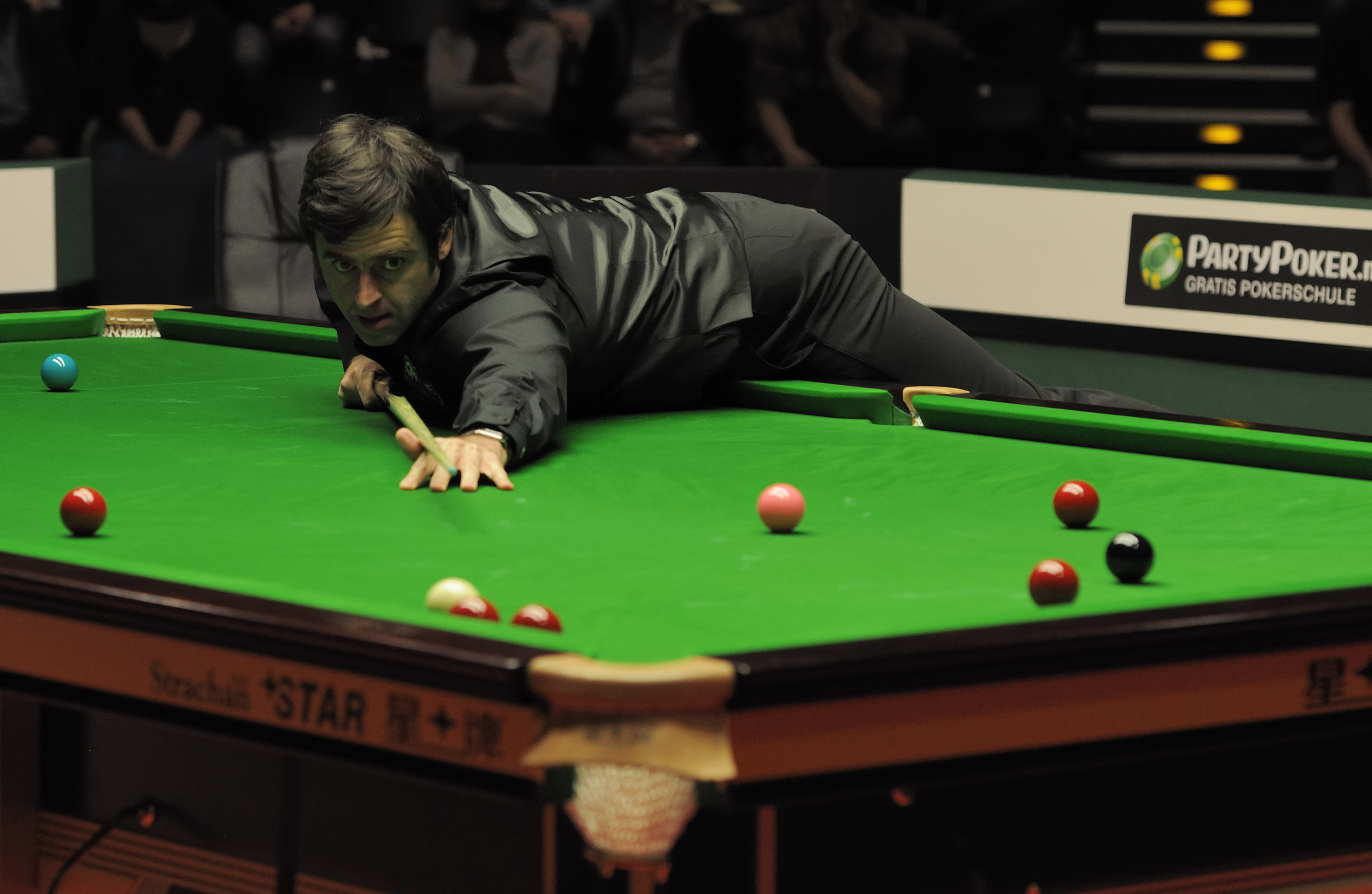 Picture taken in Berlin during the Snooker German Masters in 2011. Ronnie O’Sullivan.